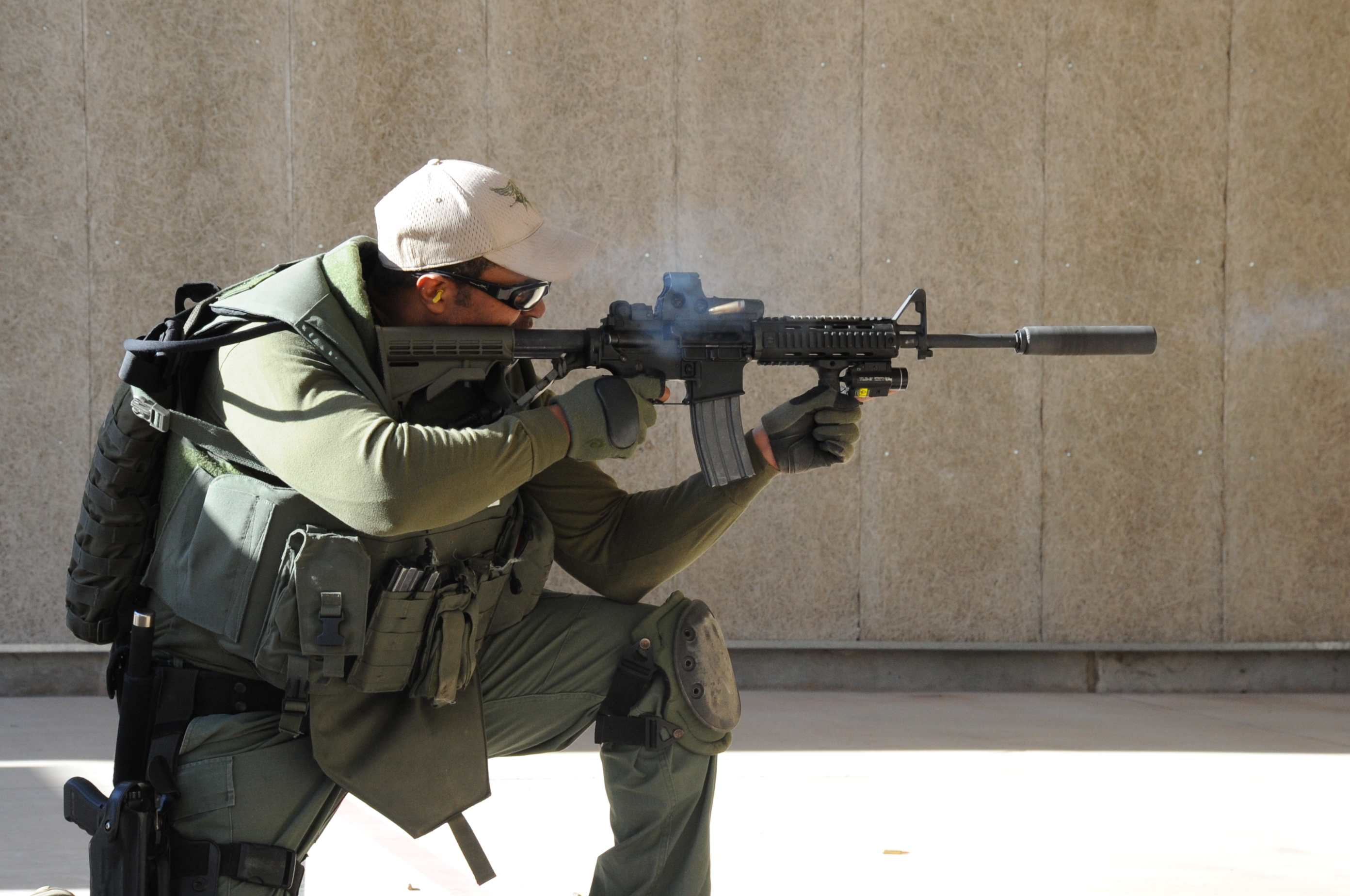 A member of the Wichita Falls SWAT team conducts a rifle drill at a law enforcement shooting range March 14, 2013. The exercise was a part of a joint exercise with an Air Force Explosive Ordinance Disposal team from the 366th Training Squadron.